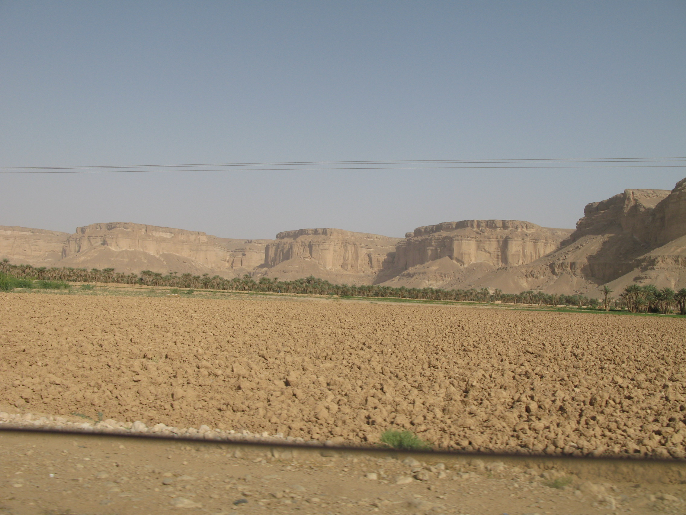 Wadi Hadhramaut